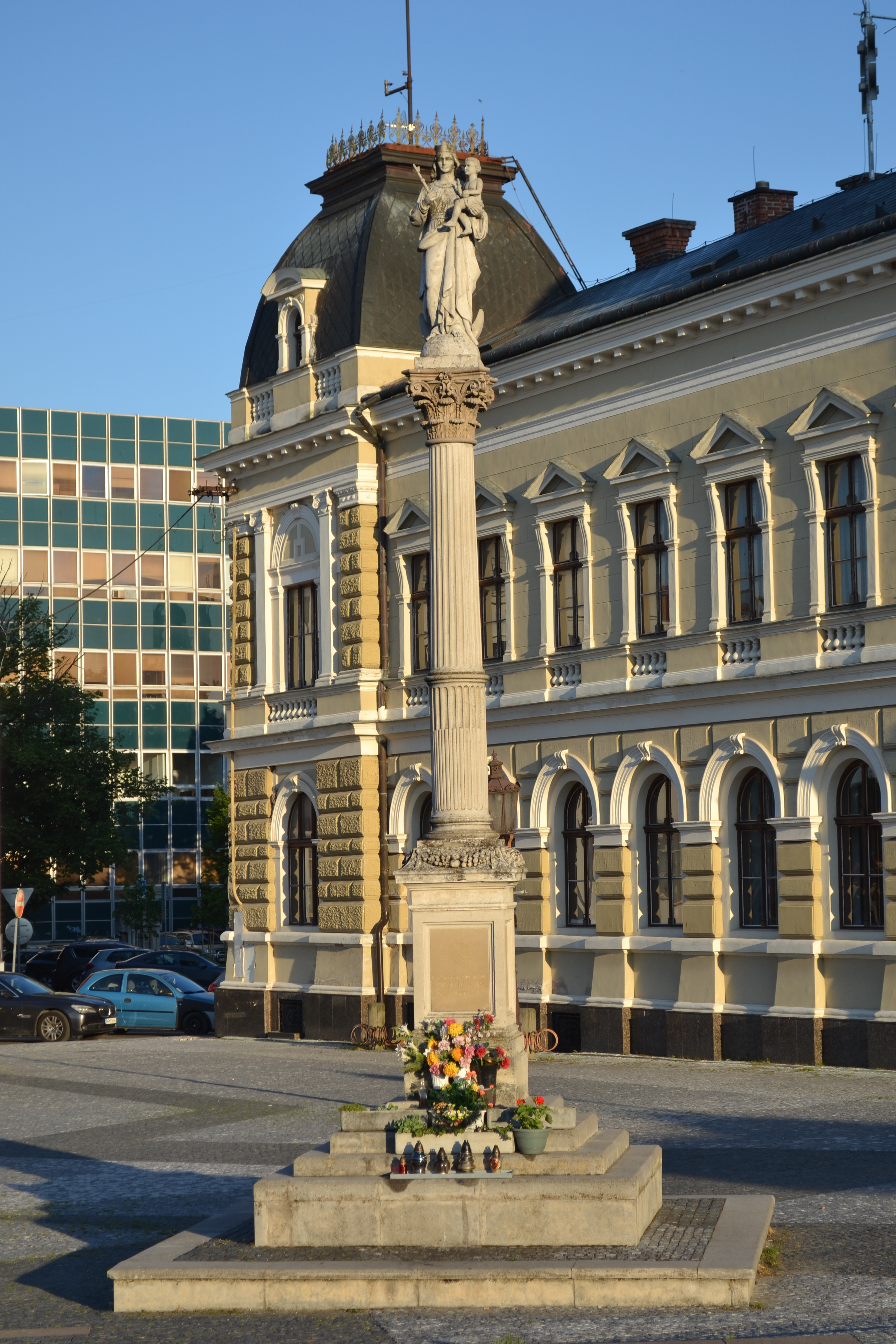 Marian column on the Svätopluk Square gave again to build in 1881 the bishop of Nitra Augustine Roškováni. The original statue was built townspeople in 1740 to commemorate the end of the plague epidemic.